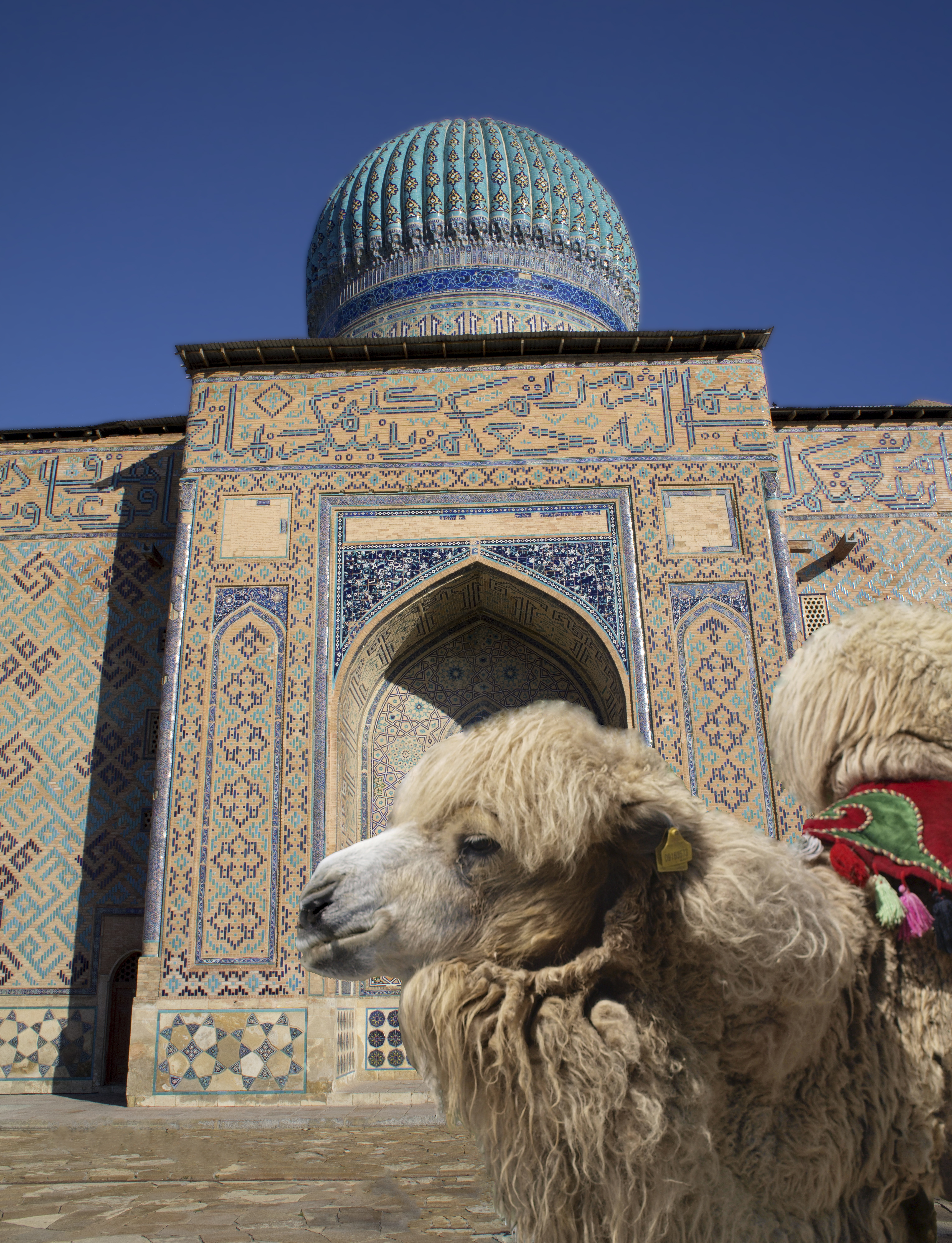 Bactrian camel (one of the symbols of Silk road caravans) in front of Mausoleum of Khwaja Ahmed Yasawi in Turkistan. Kazakhstan.Српски (ћирилица): Бактријска (двогрба) камила испред маузолеја Хоџе Ахмеда Јасавија. Туркестан, Казахстан. За време Пута свила двогрба камила је представљала главно транспортно средство преко степа, пустиња и горских ланаца Централне Азије.